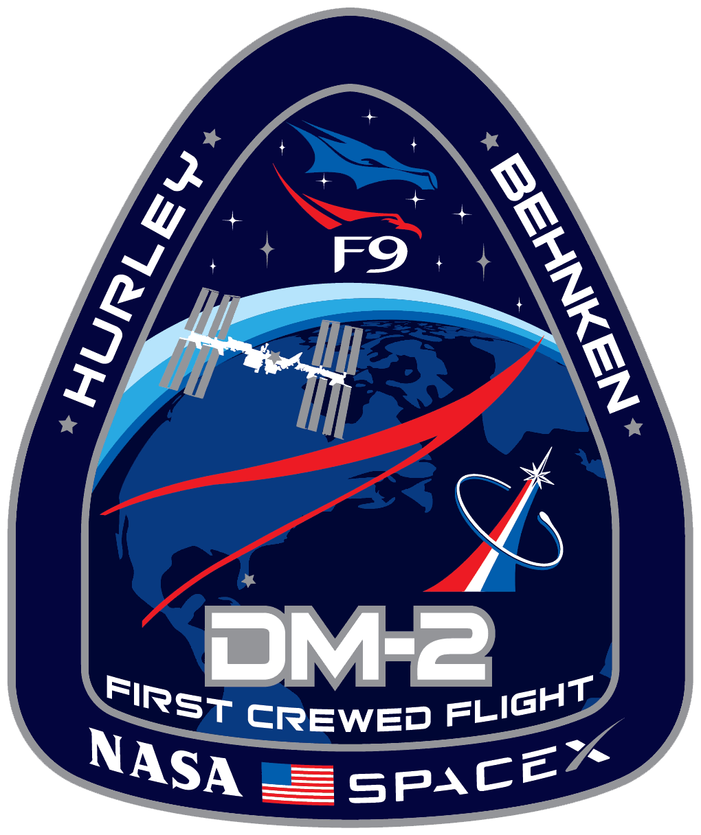 Patch of the Crew Dragon Demo-2